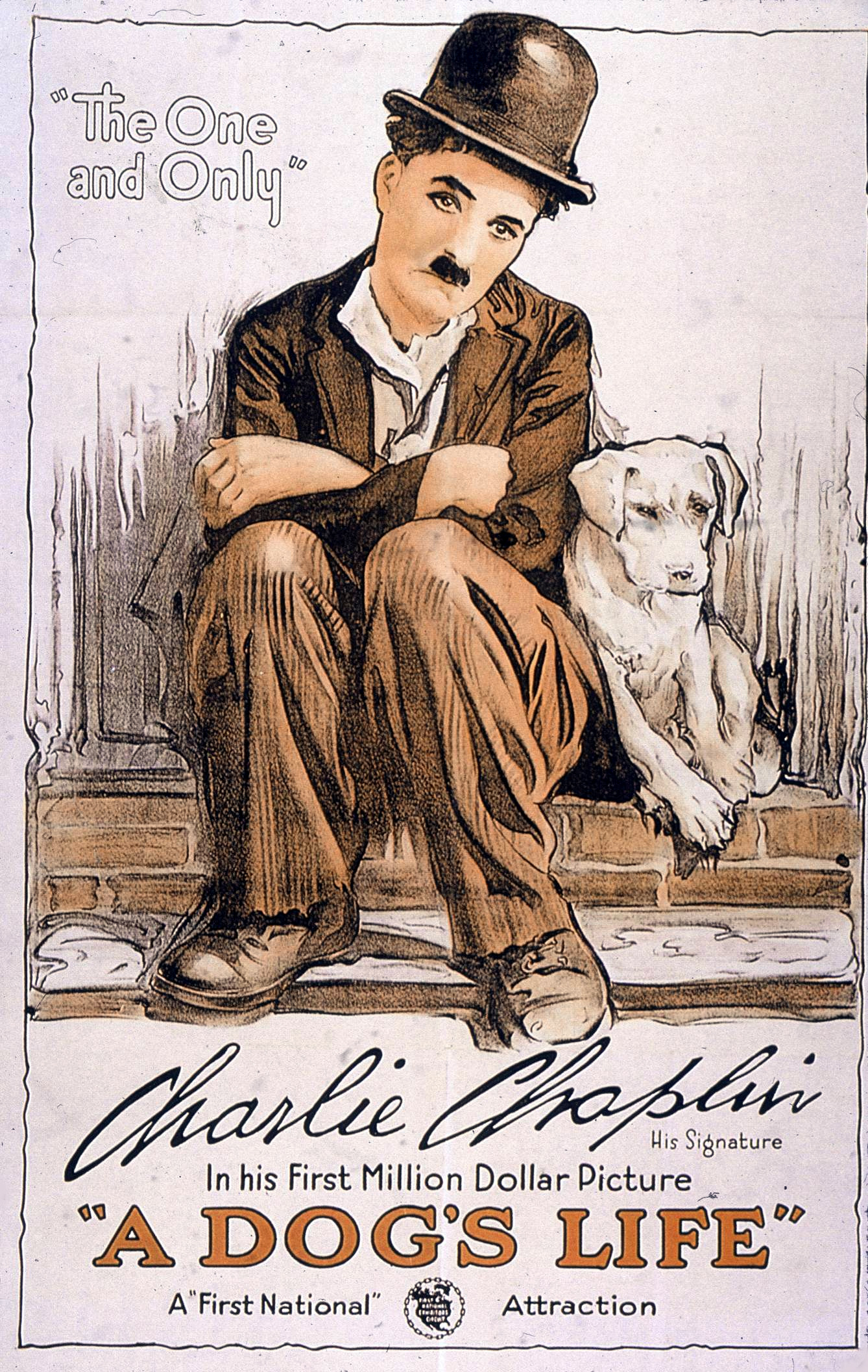 Film poster for the 1918 Charlie Chaplin vessel A Dog's Life